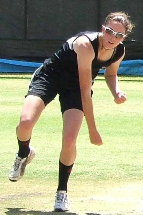 Amy Satterthwaite at Adelaide Oval nets/training ground